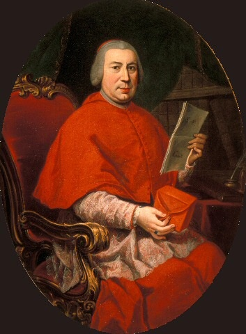 Kardinal Antonio Casali (1715-1787)